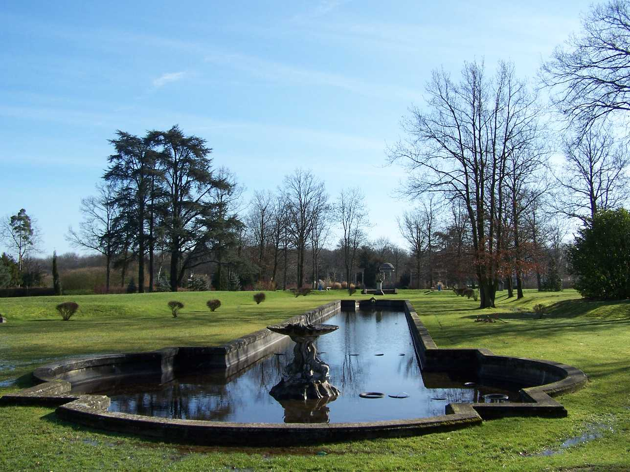 Park of the castle of the Haut-Buc (upper Buc) in Buc (Yvelines, France)